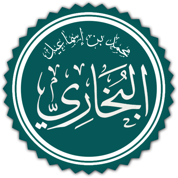 Calligraphy of Imam Mohammad Bin Ismael Al-Bukhari's name.